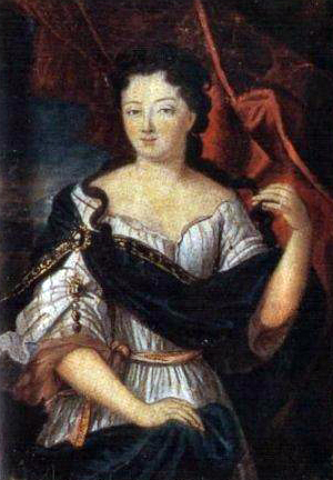 Portrait of Marie-Eléonore de Maillé (1712-1777), mother of the Marquis de Sade